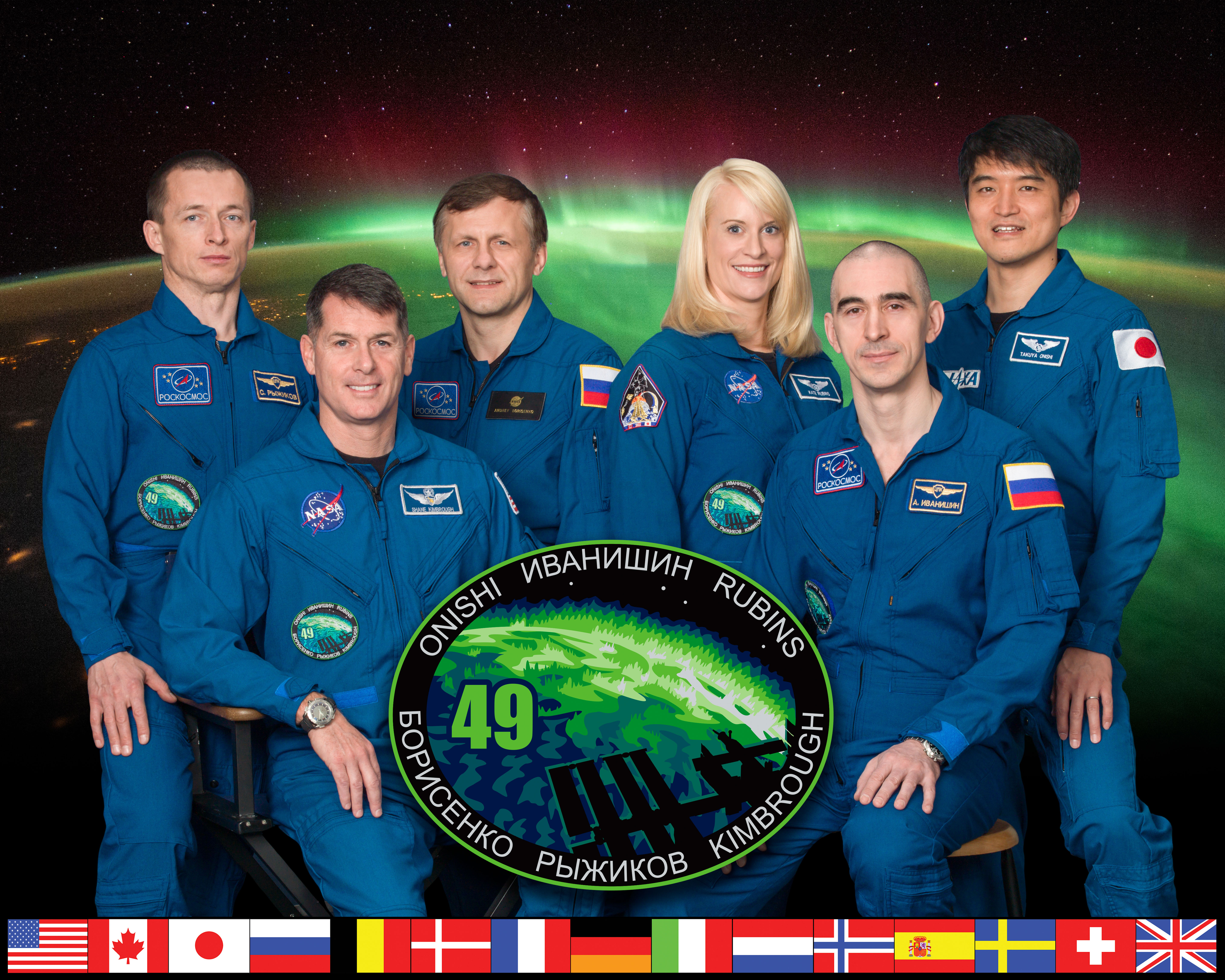 Expedition 49 official crew portrait with (from left) Sergei Ryzhikov, Shane Kimbrough, Andrei Borisenko, Kate Rubins, Anatoli Ivanishin, and Takuya Onishi.